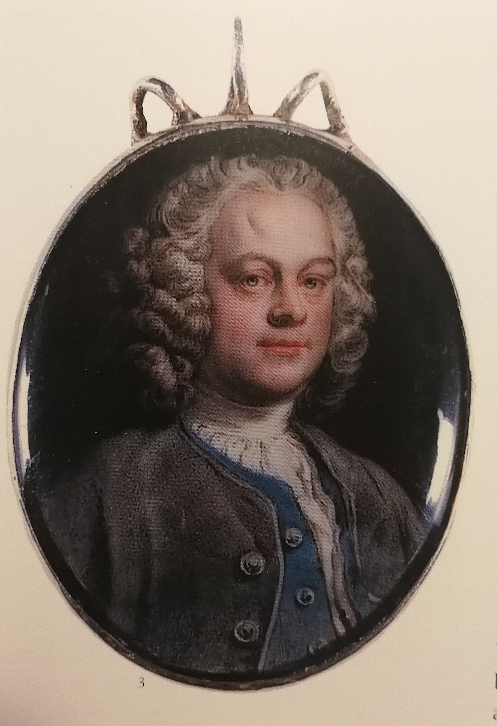 William Hogarth, enamel portrait painted on copper attributed to Jean-André Rouquet (1701-1758). Dim.: 4.5 x 3.5 cm. National Portrait Gallery, London. From: William Hogarth, Exhibition catalogue, Paris, 2006, p. 41.